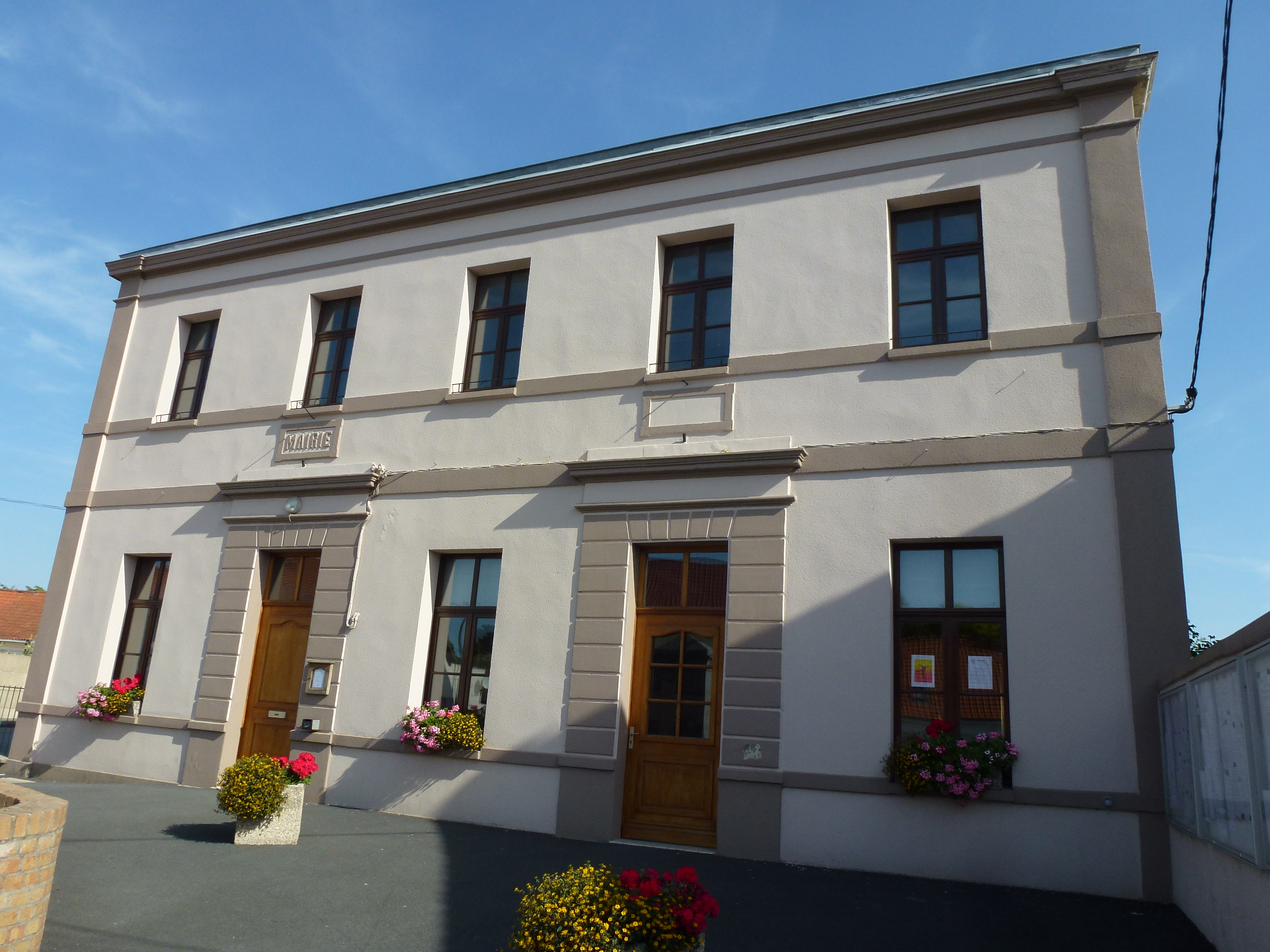 Nortkerque (Pas-de-Calais) mairie